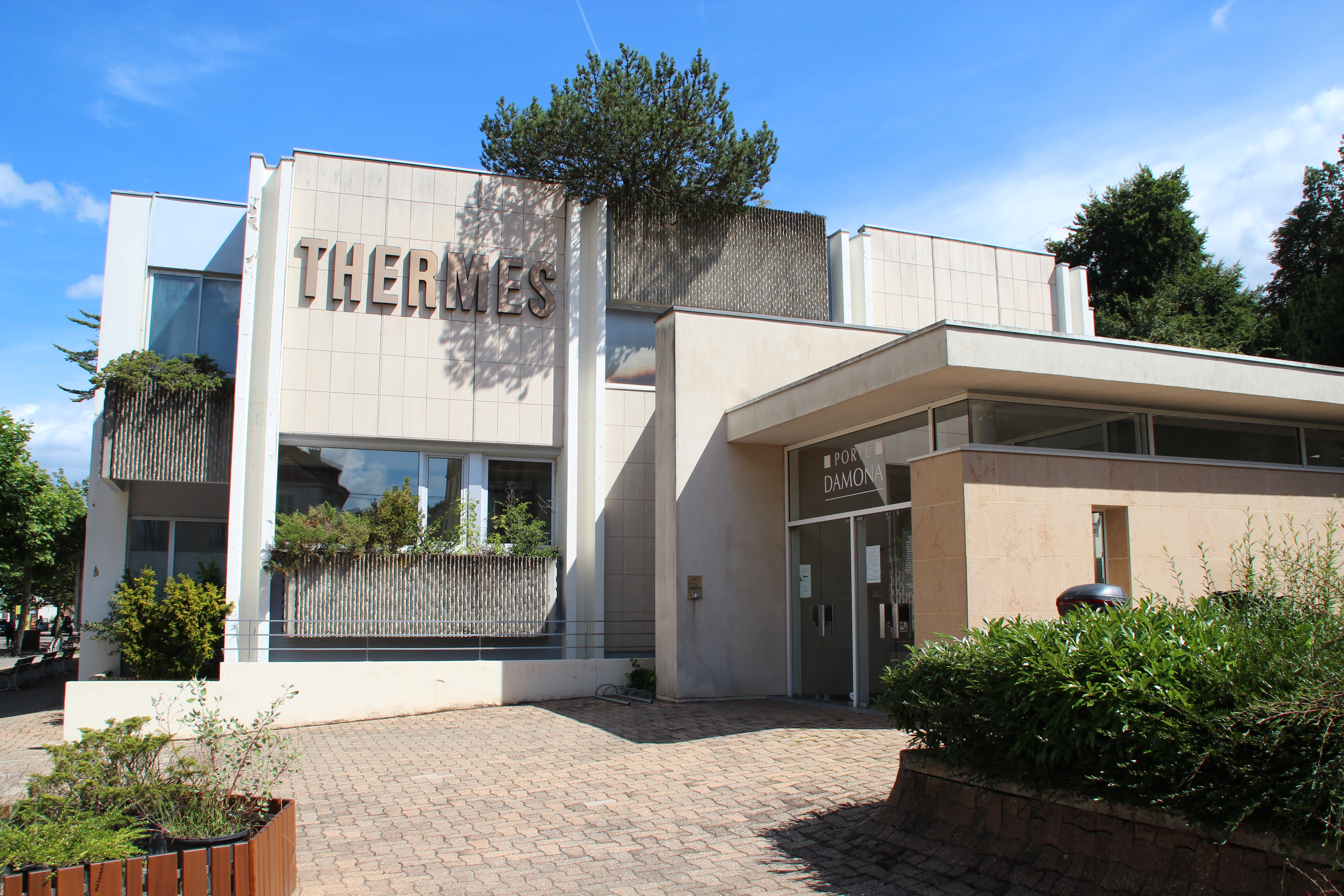 View of Bourbonne-les-Bains, France.